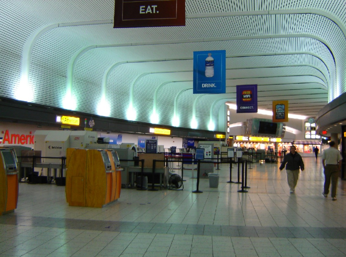 Ticketing level at Port Columbus International Airport.